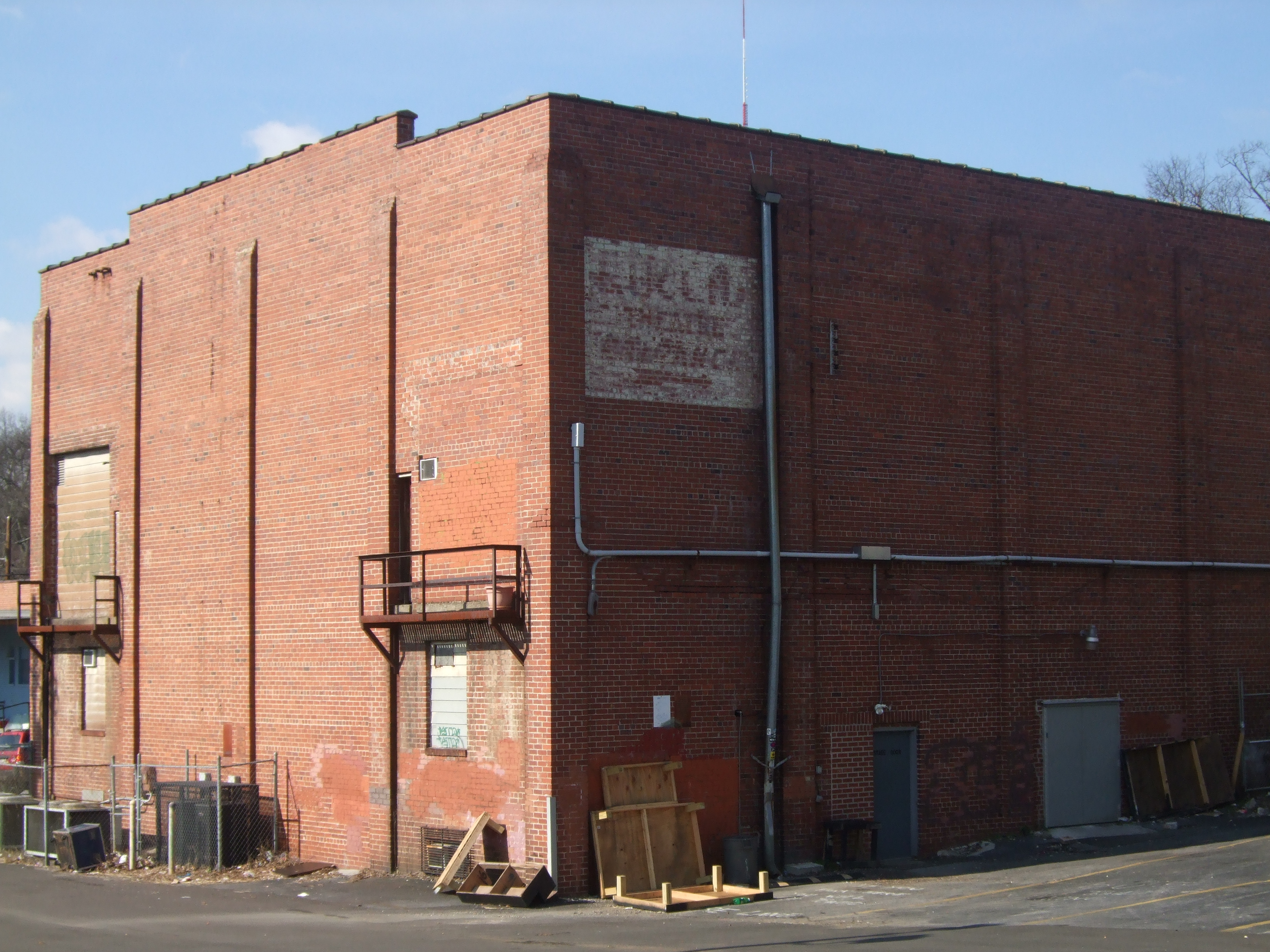 Southeast corner of Variety Playhouse, 1099 Euclid Ave. NE, Atlanta, Georgia; showing the "Euclid Theatre Entrance" sign dating from when this building was a cinema 1940 - 1962.